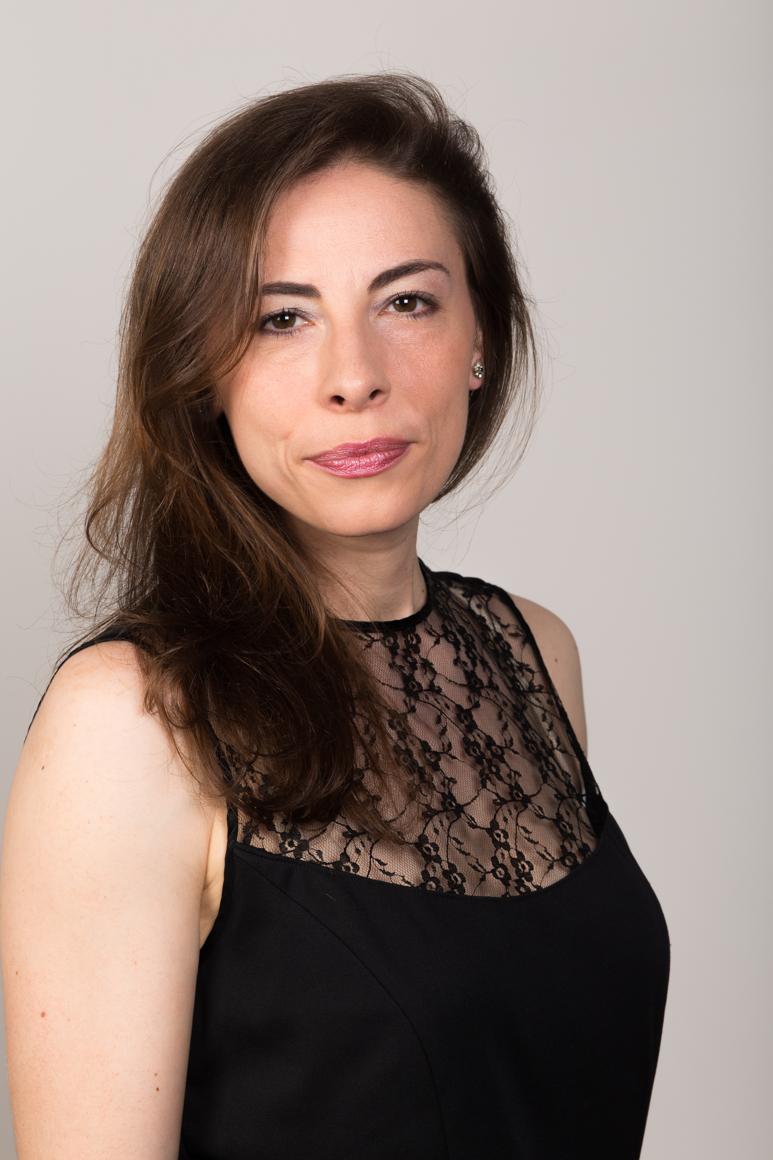 Kati Zambito, actress, director and screenwriter